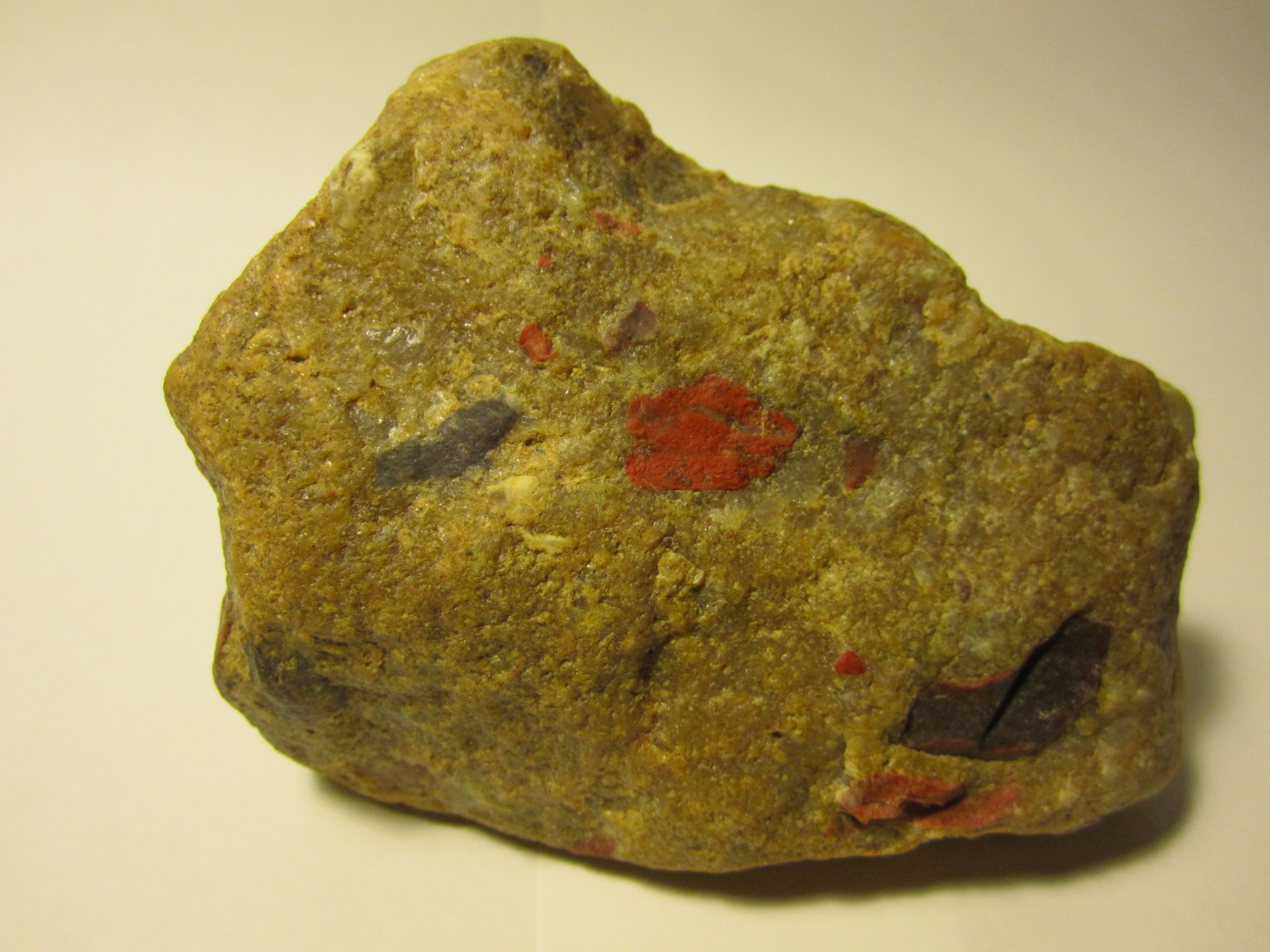 A sample of jasper conglomerate rock or "puddingstone" sourced from St. Joseph Island, Ontario. The glacial erratic rock is distinctive for its bright red and brown jasper pebbles suspended in white quartzite. The rock can be found along the far northwestern shore of Lake Huron. In the early 1800s, English settlers there gave the stone its unusual name "puddingstone" because it looked like boiled suet pudding with currants and red cherries.